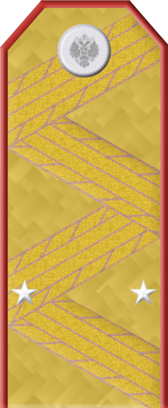 Rank insignia of the Imperial Russian Army) 1909-1917, collar patch "Major general".